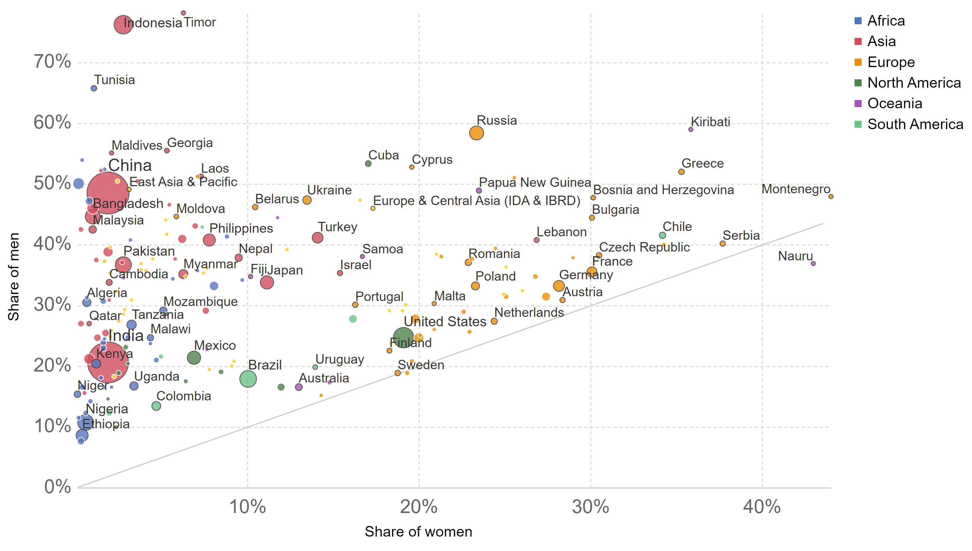 The share of men versus the share of women aged 15 years and older who smoke any form of tobacco, including cigarettes, cigars, pipes or any other smoked tobacco products. Data include daily and non-daily or occasional smoking in 2016.